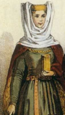 Marie of Brabant, wife of Philip III of France